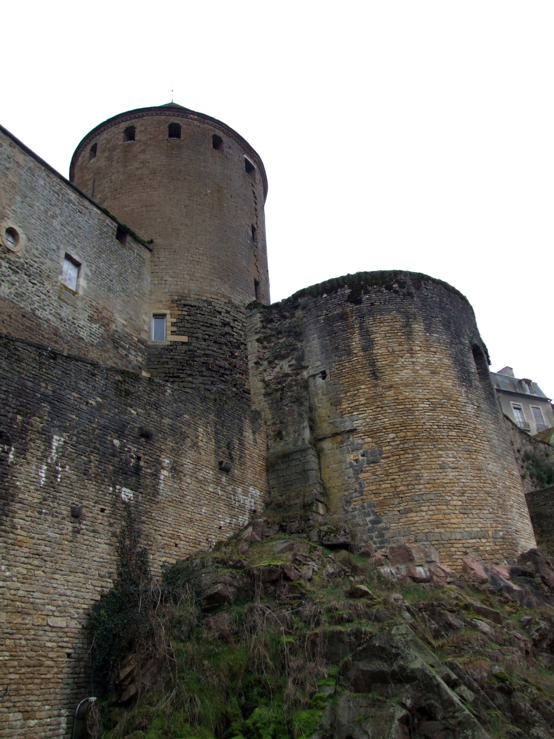 Semur-en-Auxois, Burgundy, FRANCE